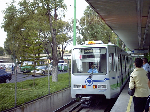 A Xochimilco light rail car approaching the platform. Photo taken in Estadio Azteca station, with a 1.2 mpx Concord digital camera.